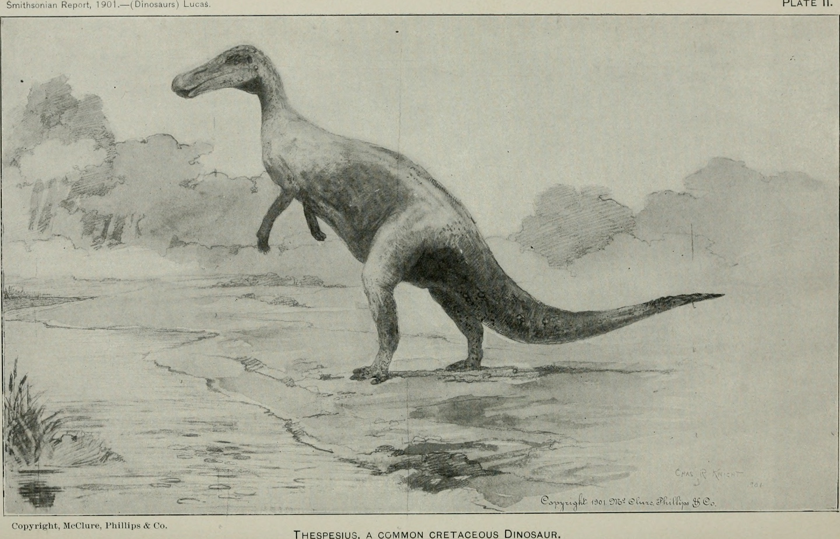 Title: Annual report of the Board of Regents of the Smithsonian Institution Year: 1846 (1840s) Authors: Smithsonian Institution. Board of Regents; United States National Museum. Report of the U. S. National Museum; Smithsonian Institution. Report of the Secretary Subjects: Smithsonian Institution; Smithsonian Institution. Archives; Discoveries in science Publisher: Washington : Smithsonian Institution Text Appearing Before Image: ' Text Appearing After Image: '